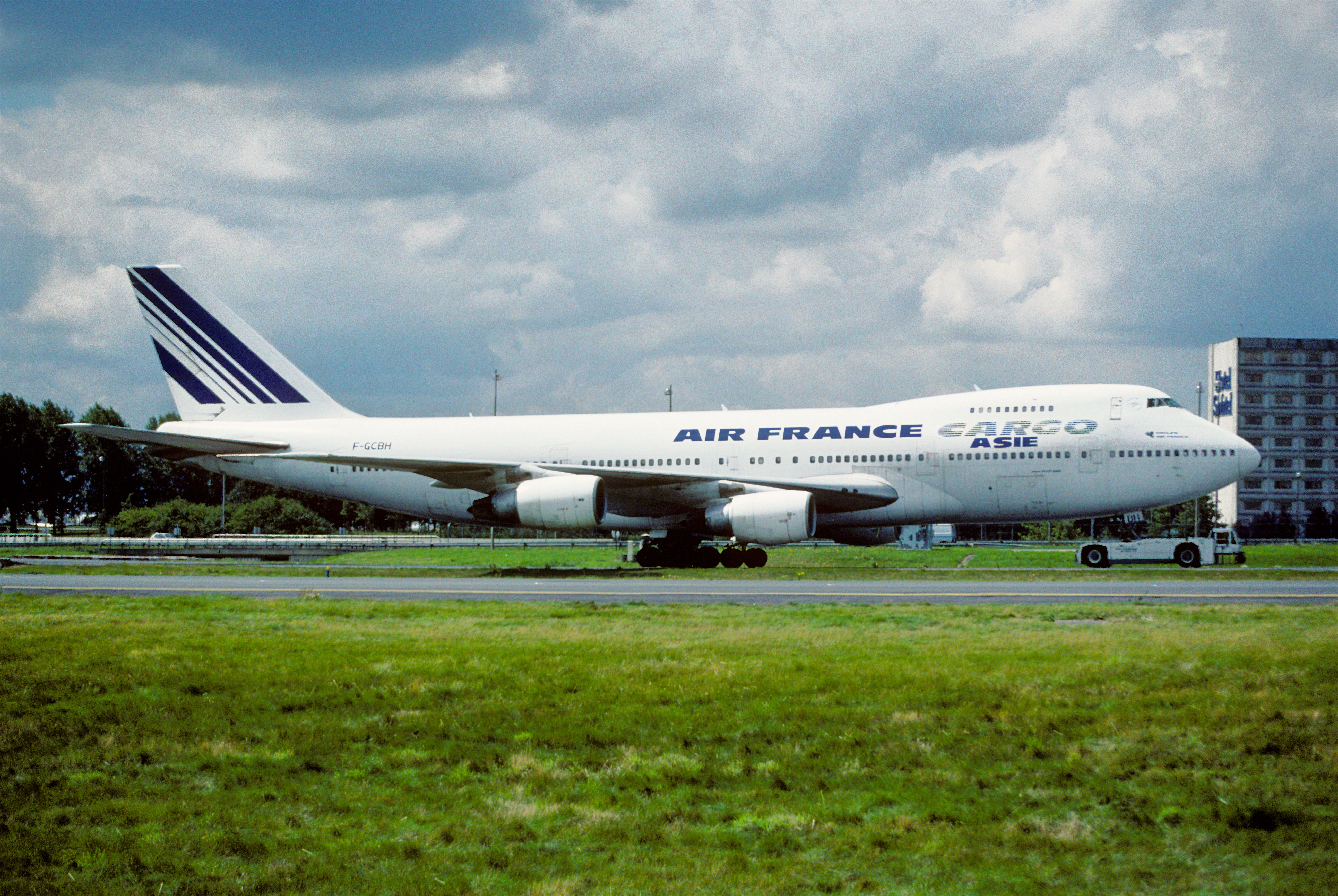 144dt - Air France Cargo Boeing 747-200F; F-GCBH@CDG;10.08.2001